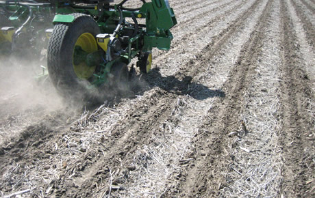 Dawn complete setup, No-till (strip-till?) into bean stubble. Planter equipped with Gfx Floating Row Cleaners, and Curvetine closing wheels. Notice the John Deere frame mounted fertilizer coulter